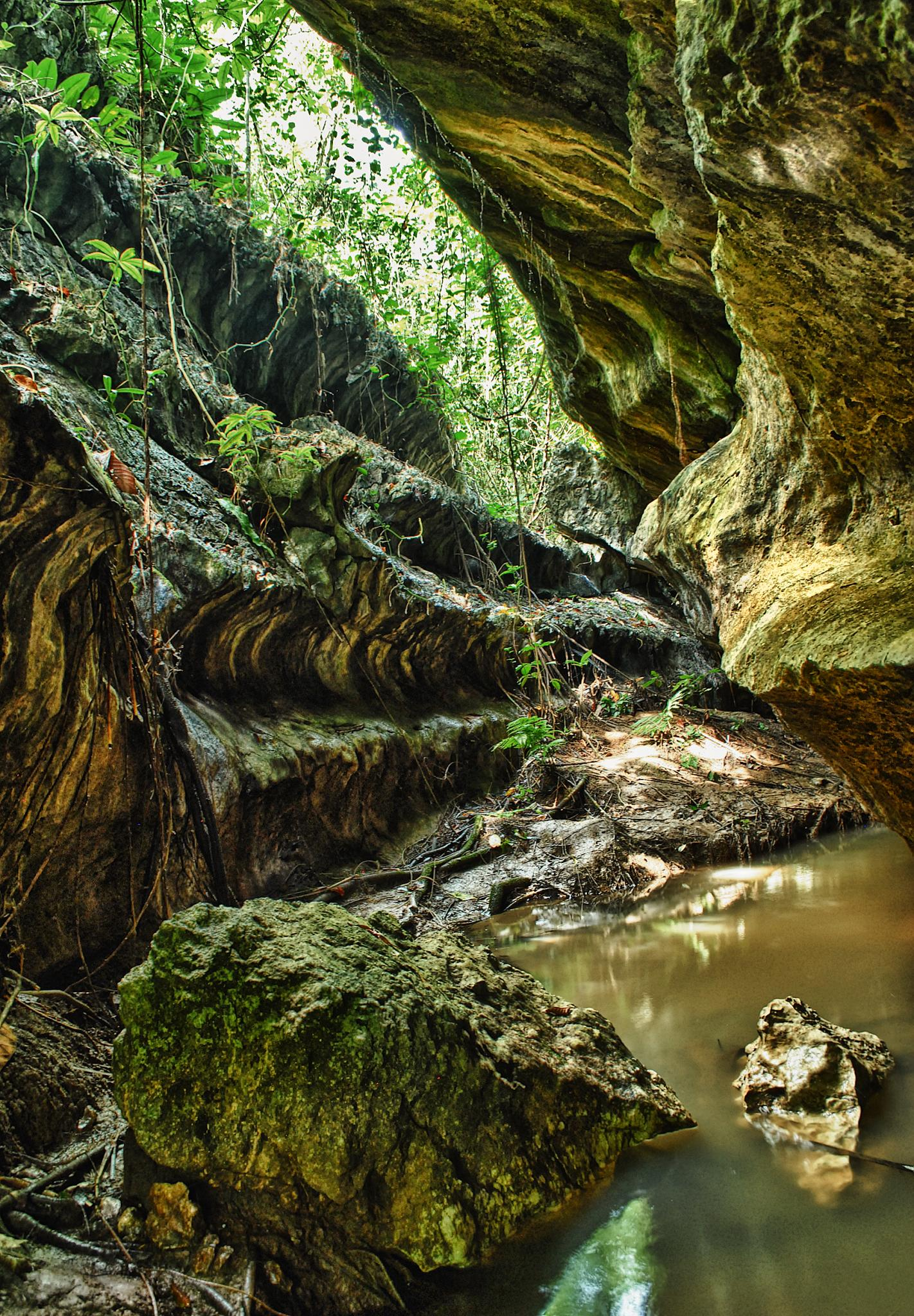 Altavas Underground Cave, Aklan, Philippines